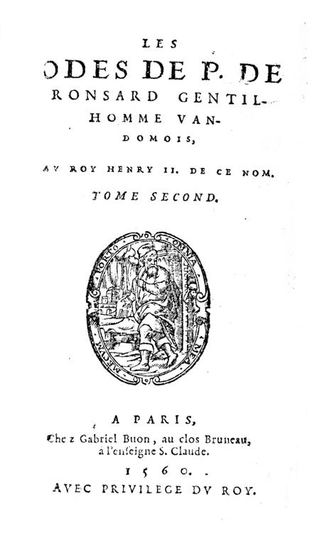 Page de Garde Oeuvres de Ronsard Imprimées au Clos Bruneau, chez Gabriel Buon à l'enseigne Saint Claude, en 1560.